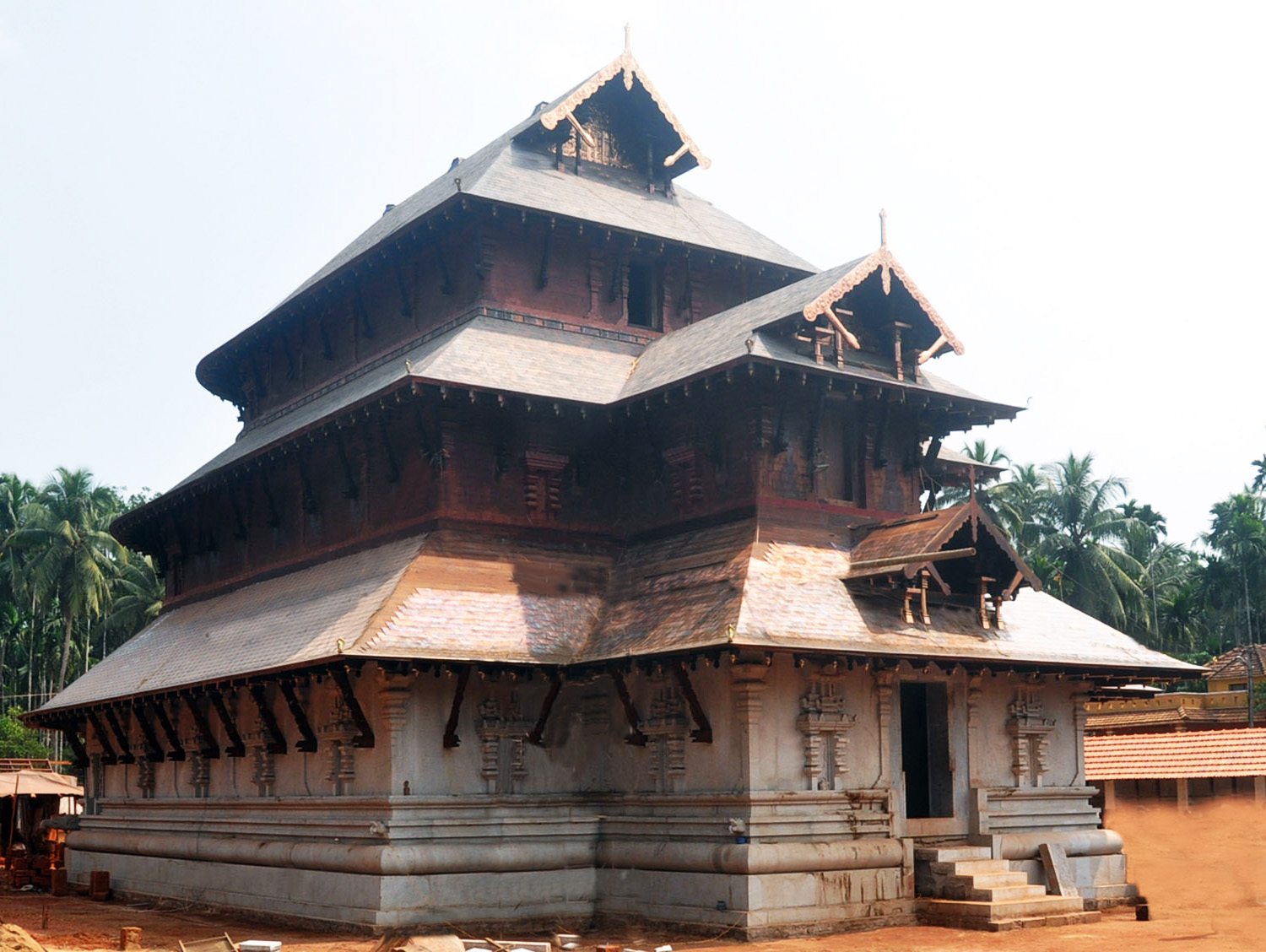 ಮುಂಭ್ಹಾಗ